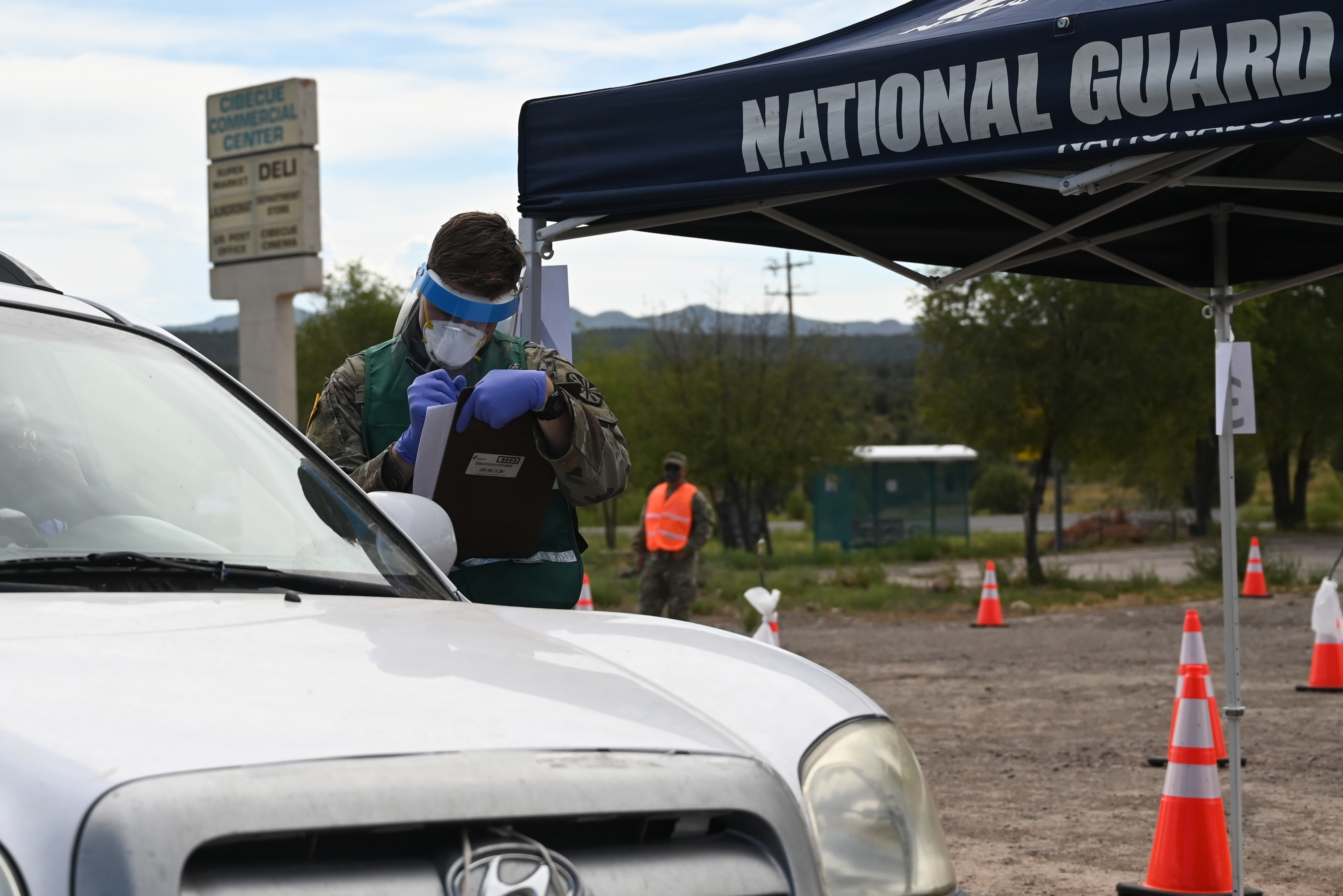 Arizona National Guard service members prepare and collect COVID-19 test samples July 15, 2020 in Cibecue, Ariz. before transporting them to a state lab for testing. The delivery is part of the Arizona National Guard’s response to community needs during this COVID19 state of emergency.